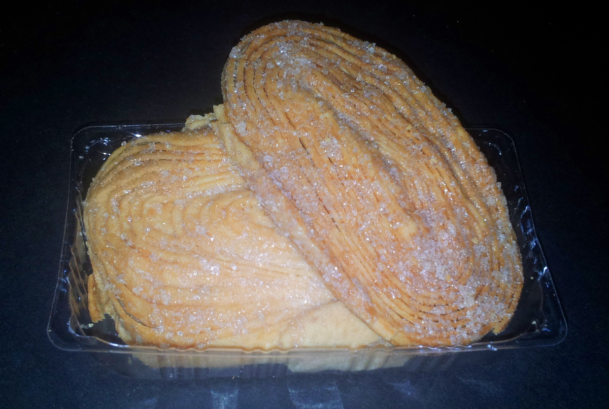 Otap (Utap) puff pastry from Cebu, Philippines